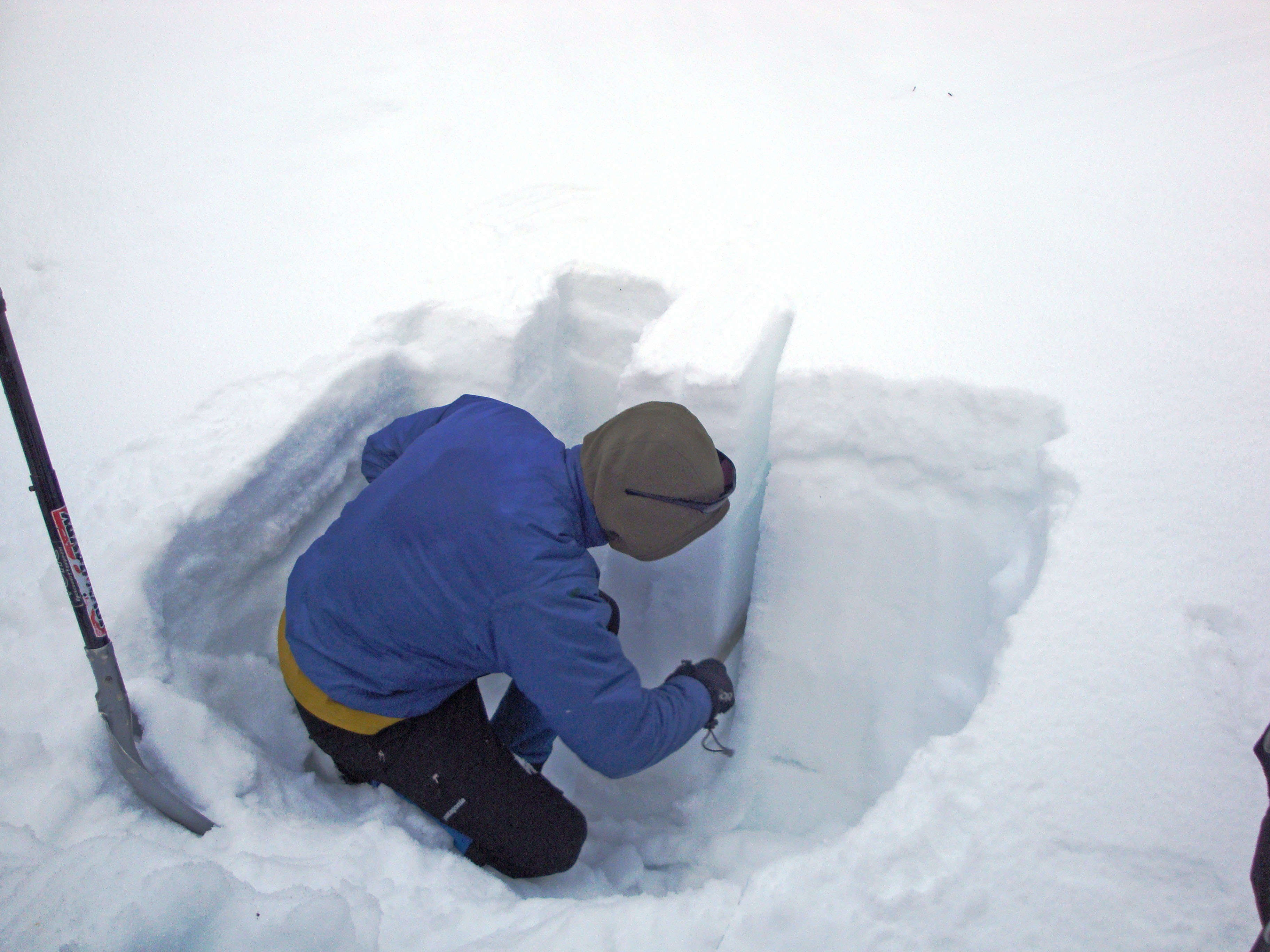 A person cutting a sample from a snow pit in order to evaluate the risk of avalanches